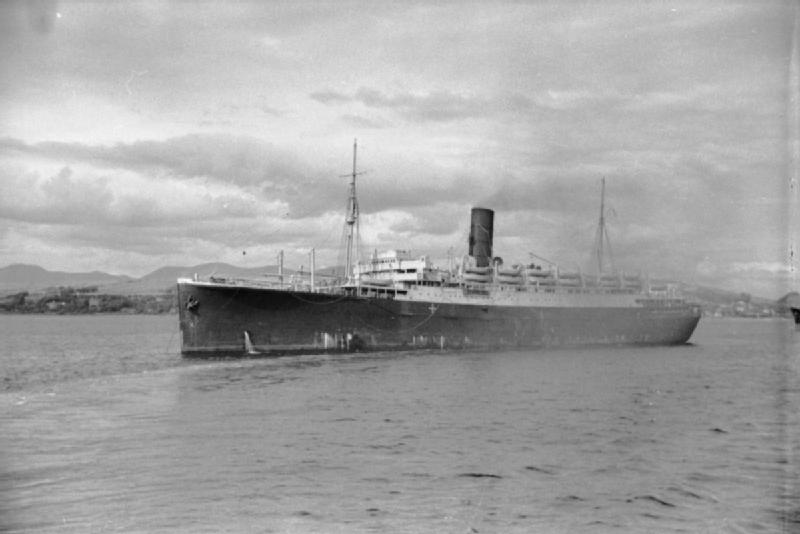 Ss Lancastria Moving astern at Greenock.